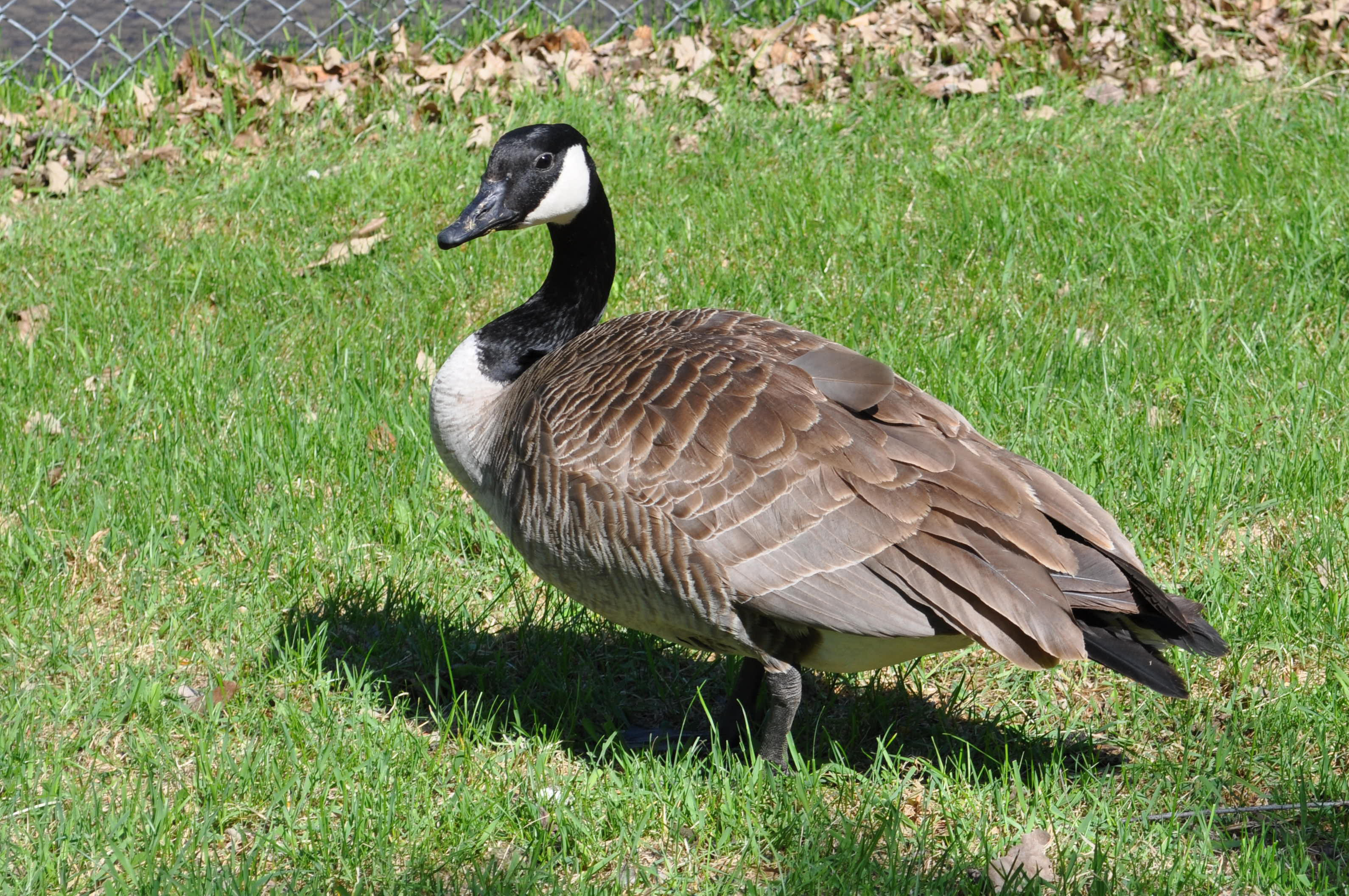 High Resolution photo of a Canada Goose (Branta canadensis) standing in the grass in Winnipeg, Canada.